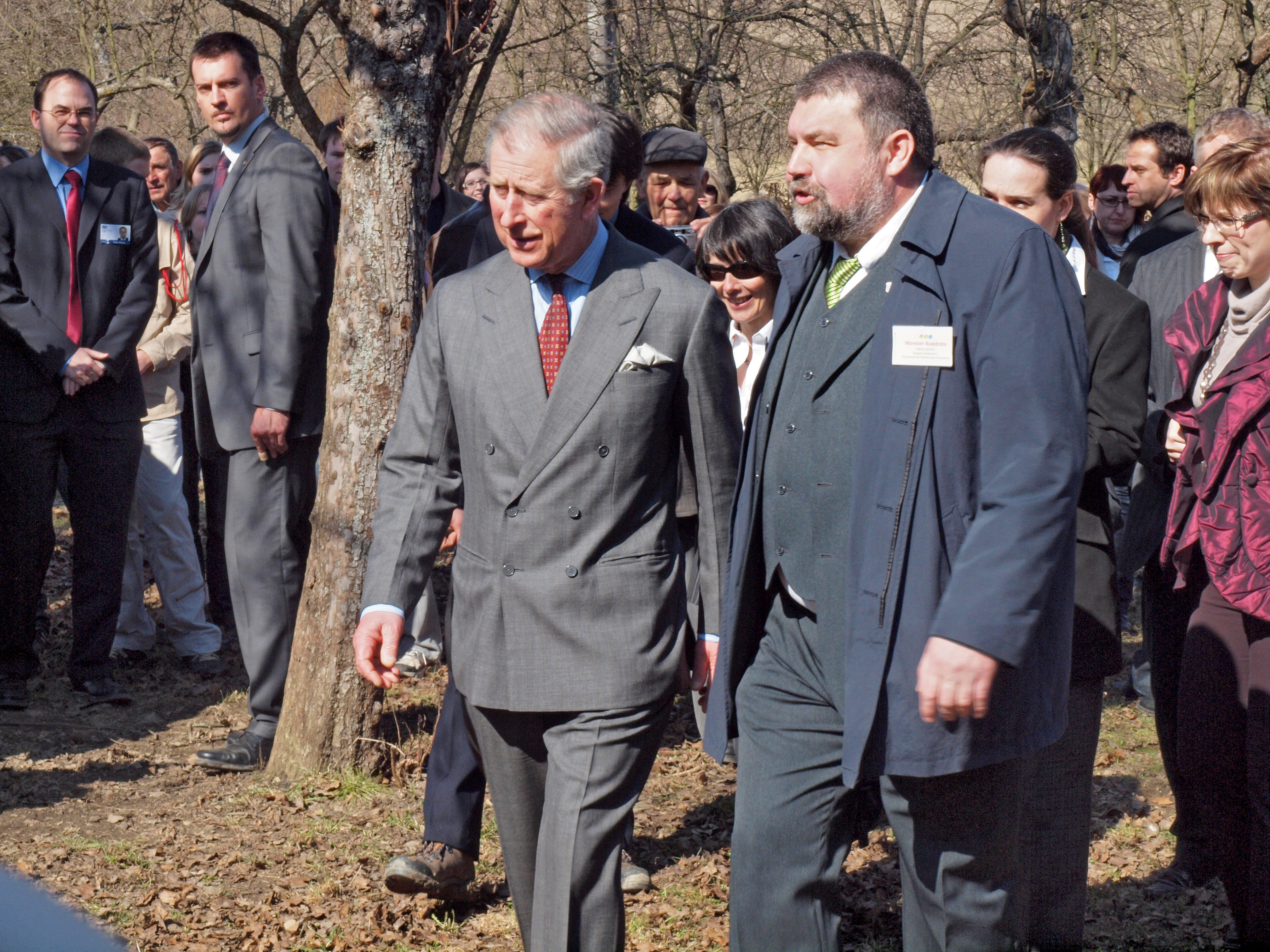 Miroslav Kundrata, director of the Environmental Partnership Foundation, explained to Prince Charles environmentally friendly projects in Hostětín village (White Carpathians, east part of the Czech Republic).